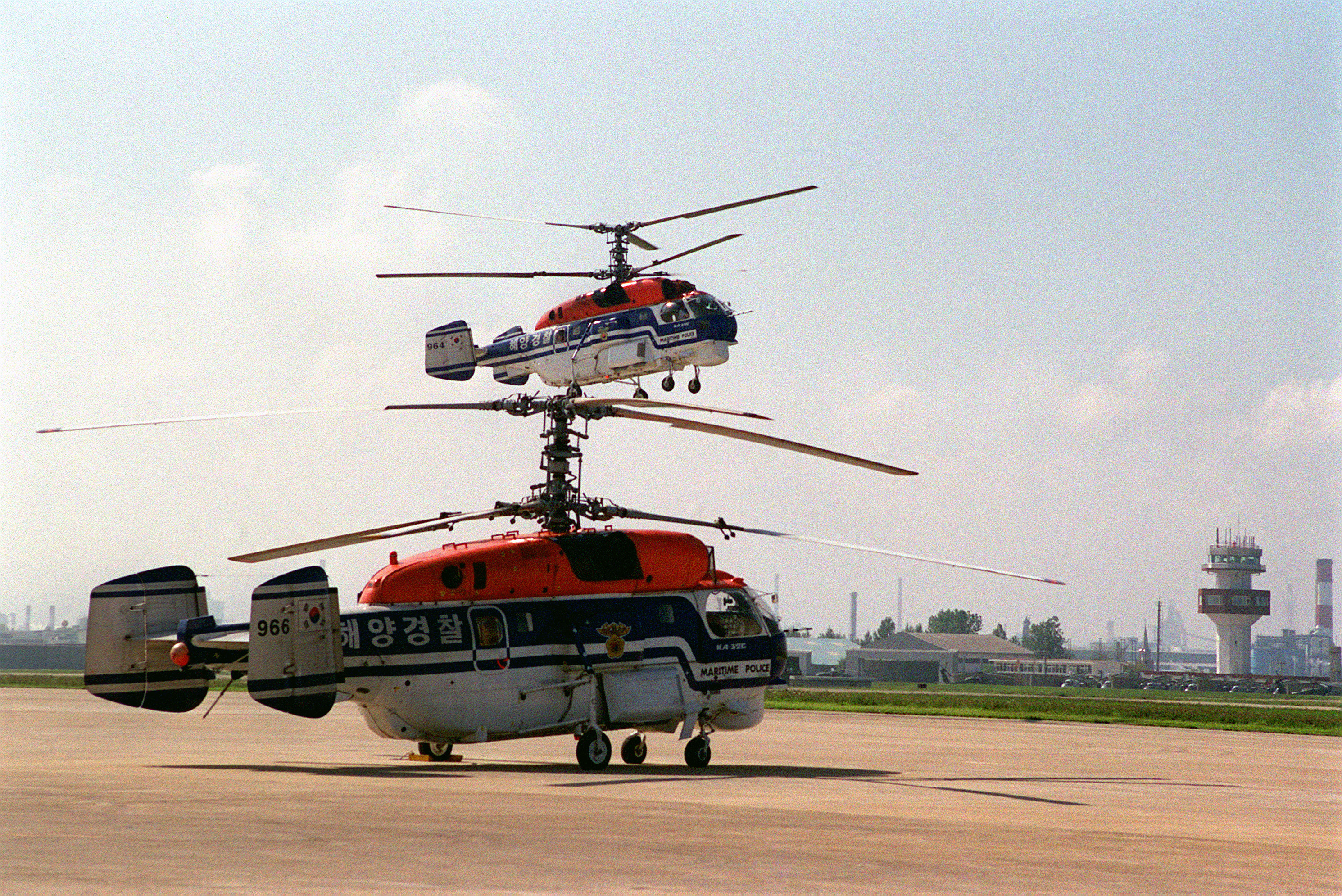 One Kamov Ka-32 Republic of Korea Maritime Police helicopter sits grounded at Pohang Airfield while another Republic of Korea Maritime Police helicopter hovers above it in the background. The helicopters are taking part in KITP (Korean Integrated Training Program).